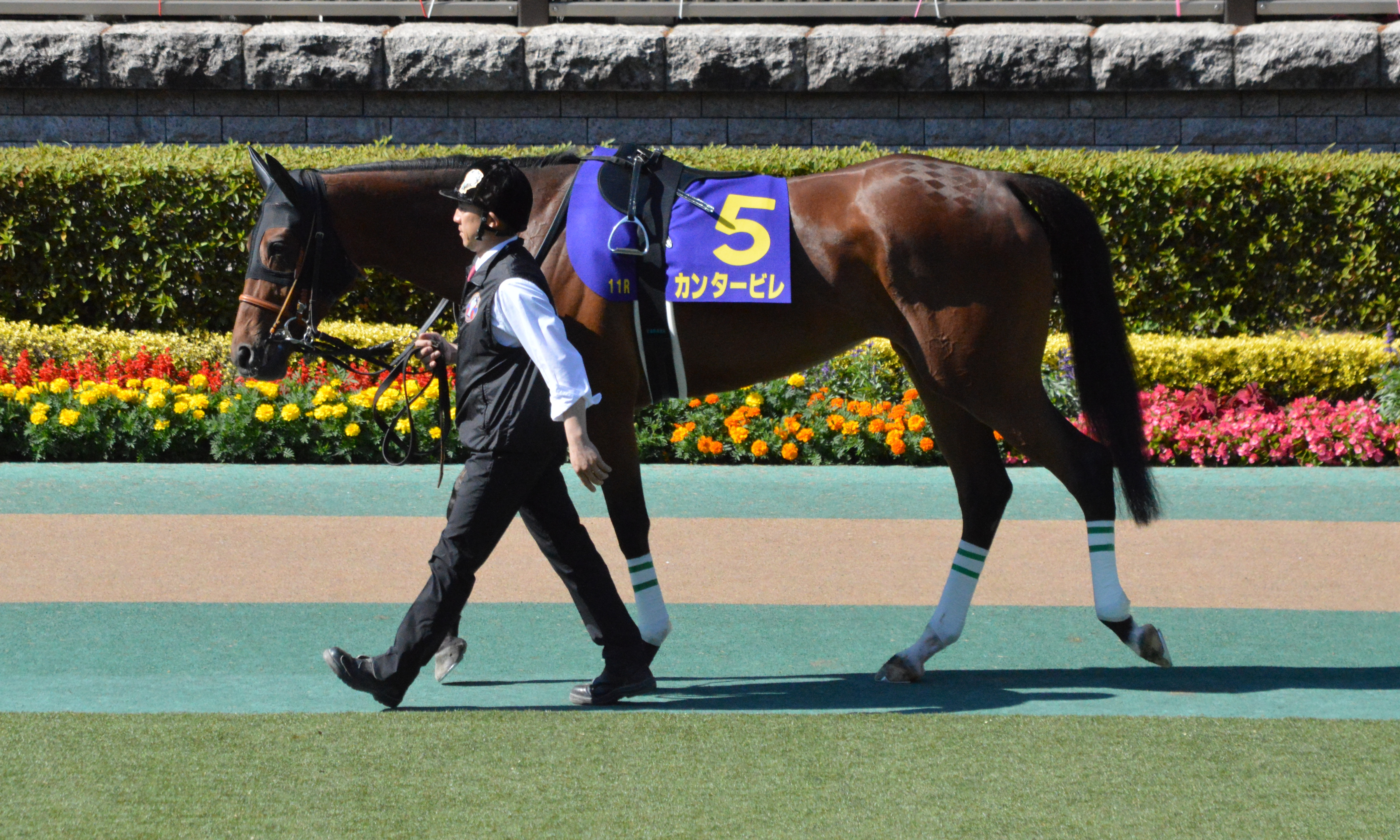 Japanese race horse Cantabile at Tokyo racecourse. Tokyo (JPN) 20 May 2018Yushun Himba (Japanese Oaks) (Grade 1) (3yo Fillies) (Turf) 1m4f Firm RankHorse NameOddsAgeWgtJockeyTrainer1stAlmond Eye (JPN)7/10FF38-9Christophe-Patrice LemaireSakae Kunieda13thCantabile (JPN)35/1F38-9Hironobu TanabeKatsuhiko SumiiOthers are omitted. (18 horses entered in a race.)